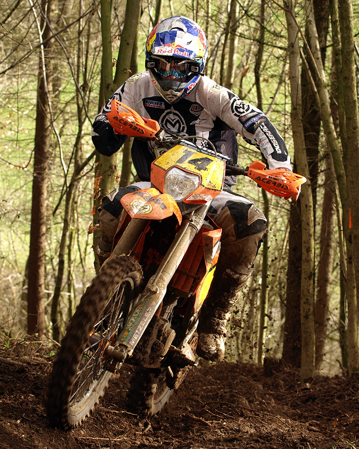 David Knight at ACU British Enduro Championship (2010)